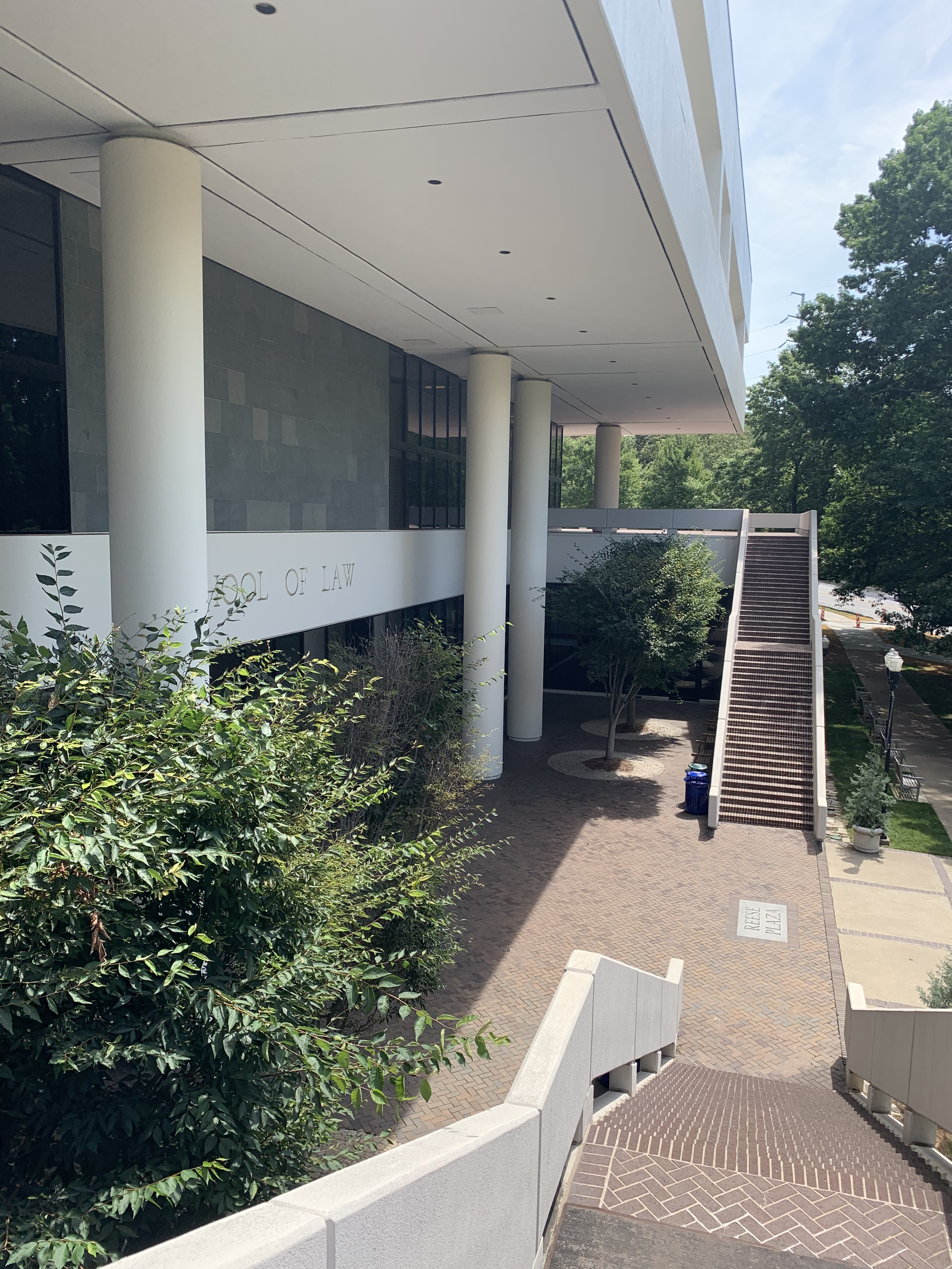 This is the Clifton Road entrance of the Emory University School of Law.